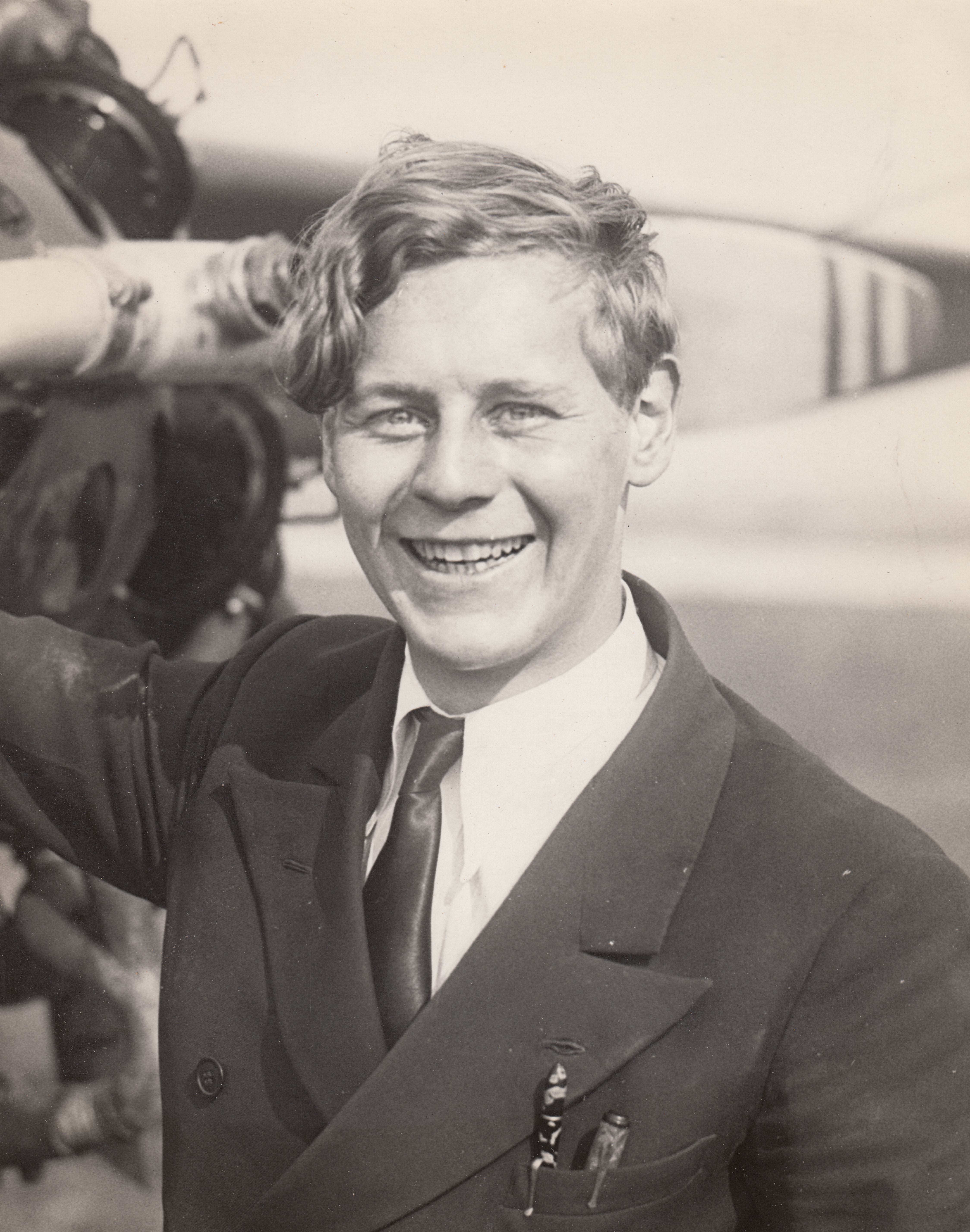 Eddie August Schneider on September 10, 1930 in Detroit with two pens in pocket 600 dpi 100 quality (crop)